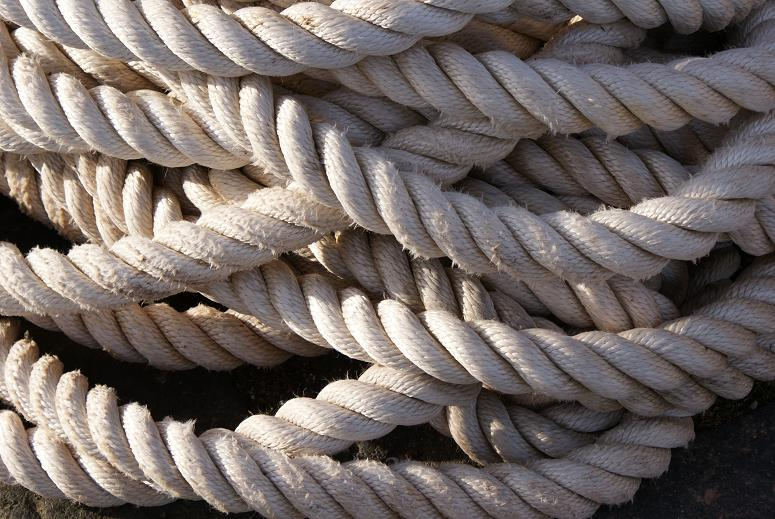 Rope. Dunbar Harbour.